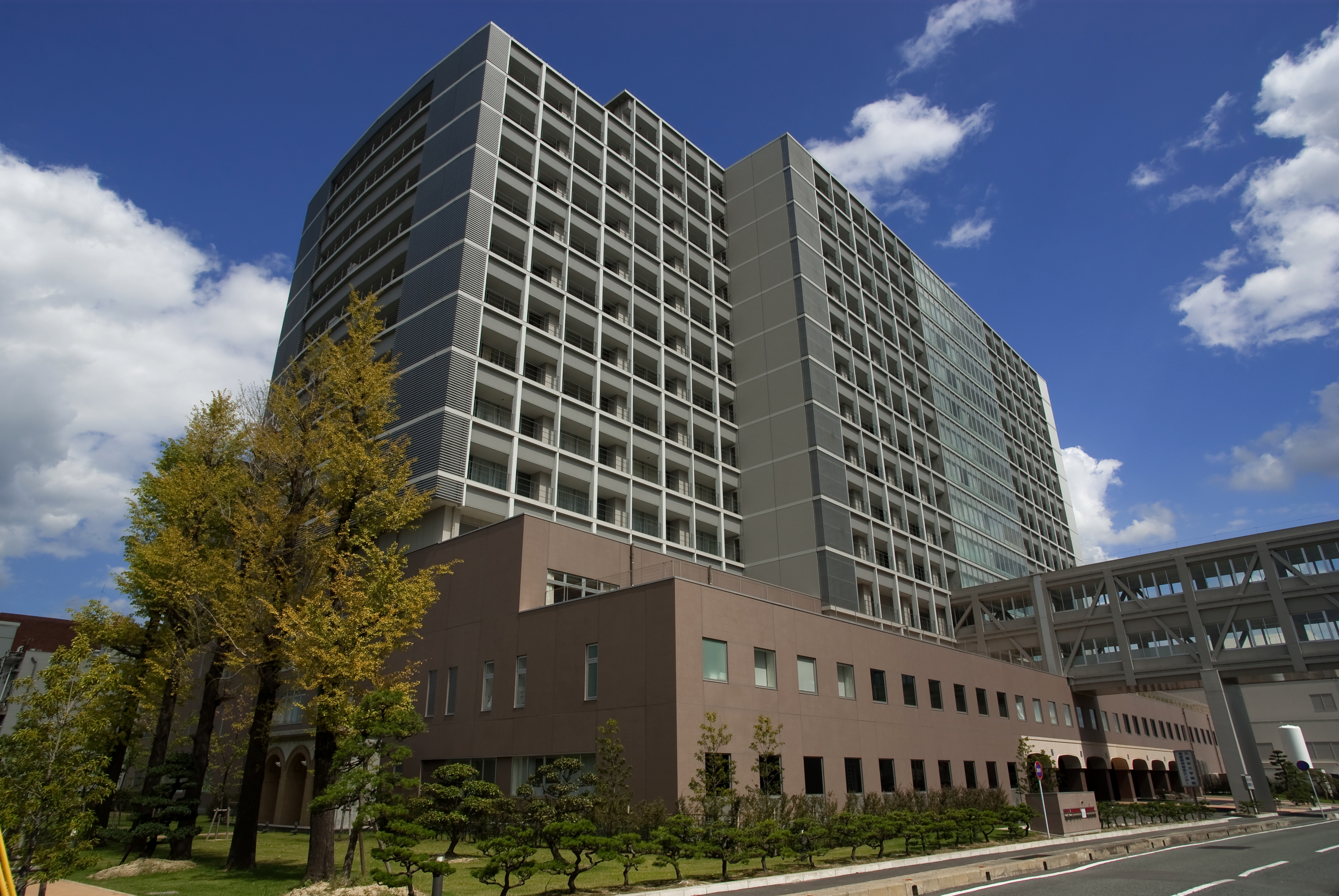 kurume university hospital